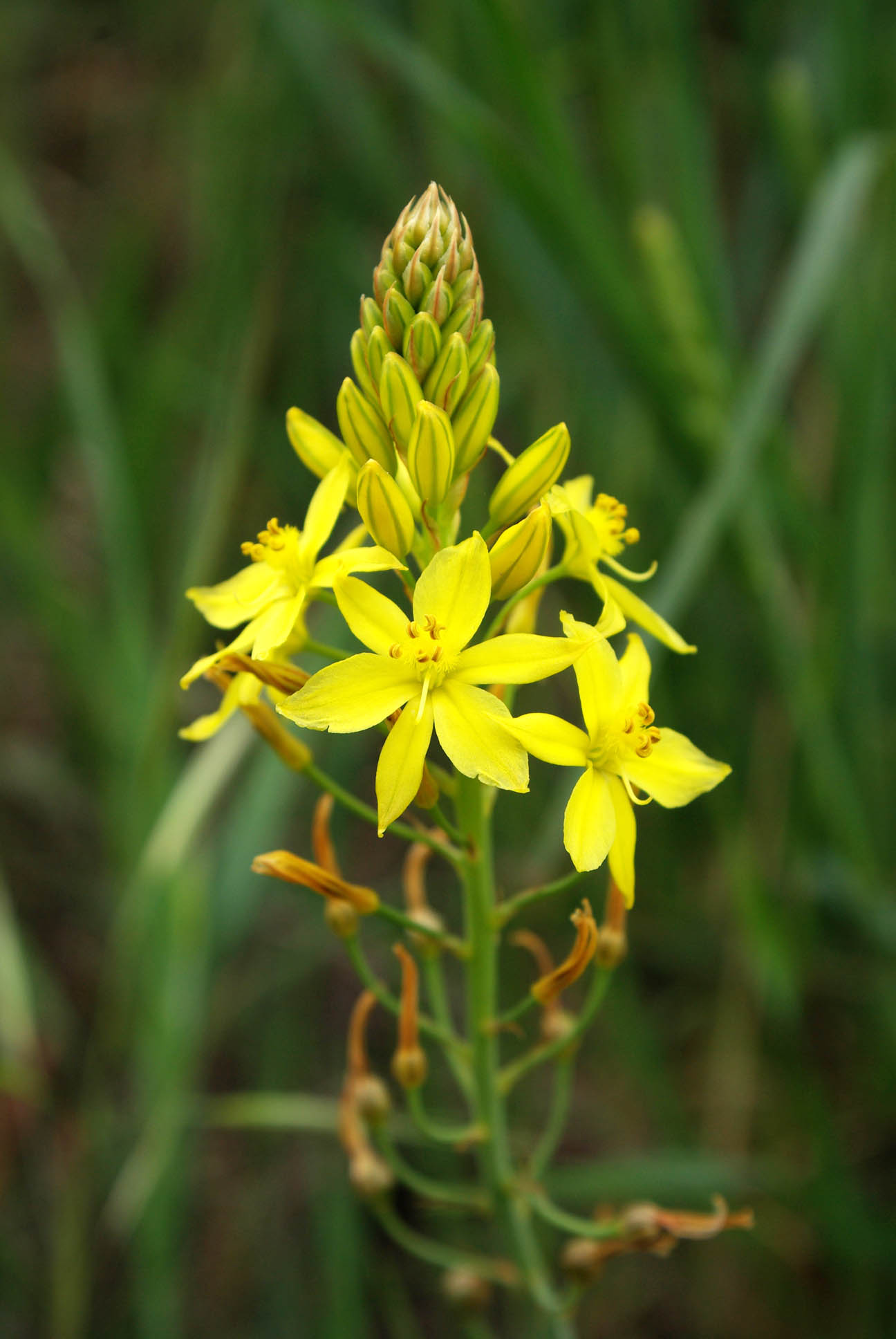 Bulbine bulbosa in a hedgerow north of Hobart